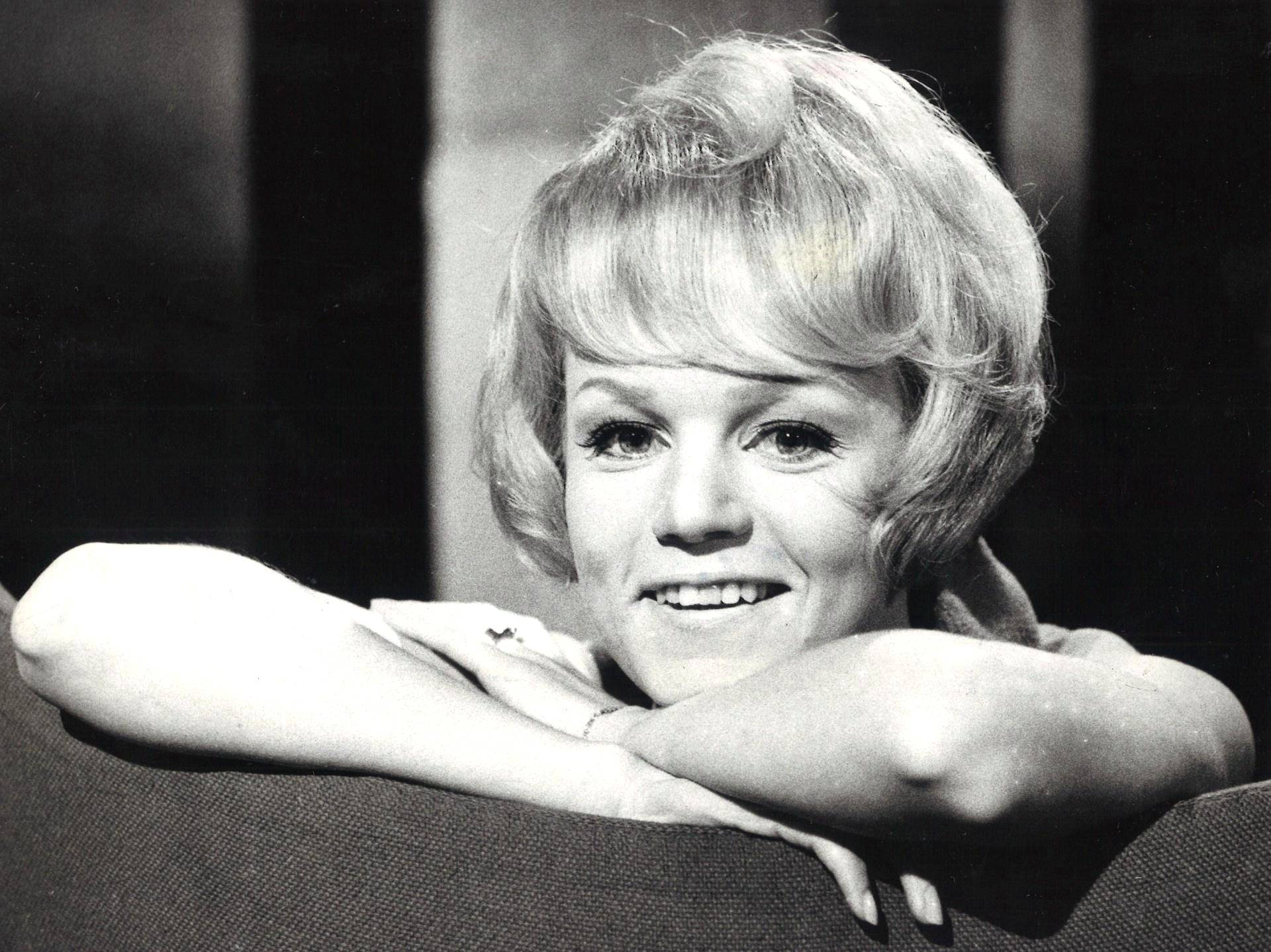 Photograph of the Finnish vocalist Katri Helena (1945–).